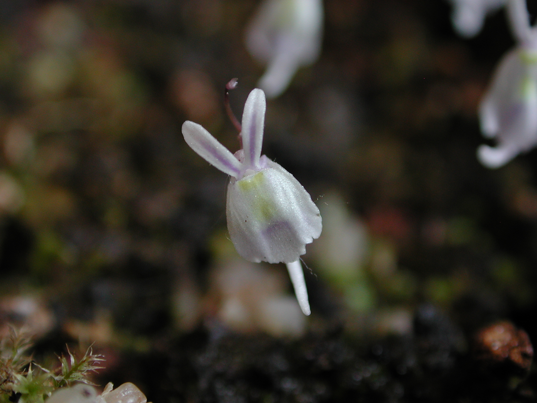 Utricularia sandersonii "narrow" - flower of plant living in culture